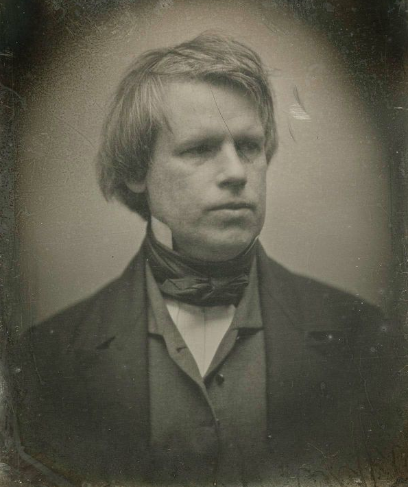 Portrait of Josiah Johnson Hawes, by Southworth & Hawes. Plate: 10.8 x 8.3 cm (4 1/4 x 3 1/4 in.). Photograph, daguerreotype. Marks: L. l. plate maker mark: "Scovill Mfg. Co./Extra". Spirit of Fact #2.